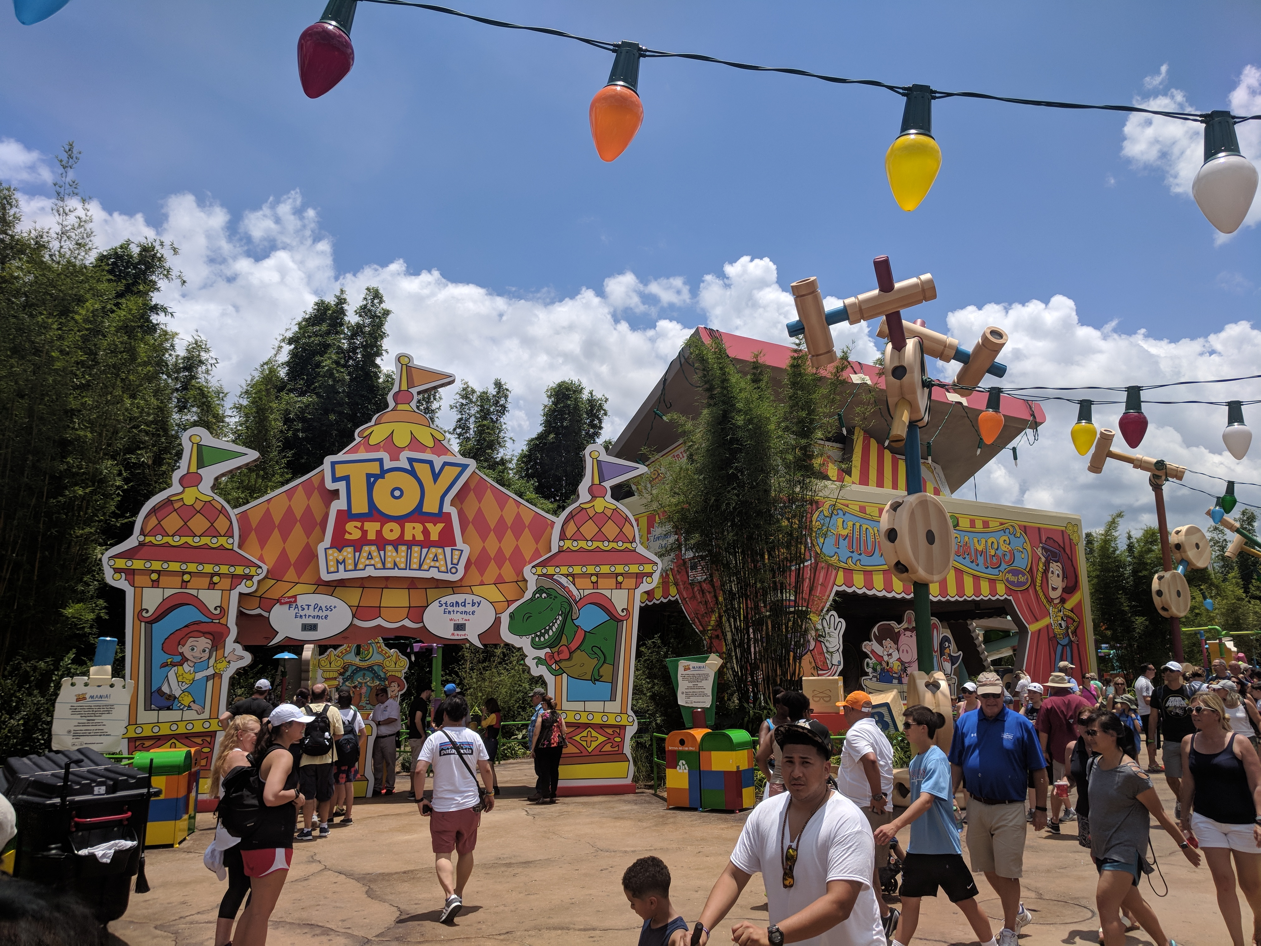 Toy Story Mania